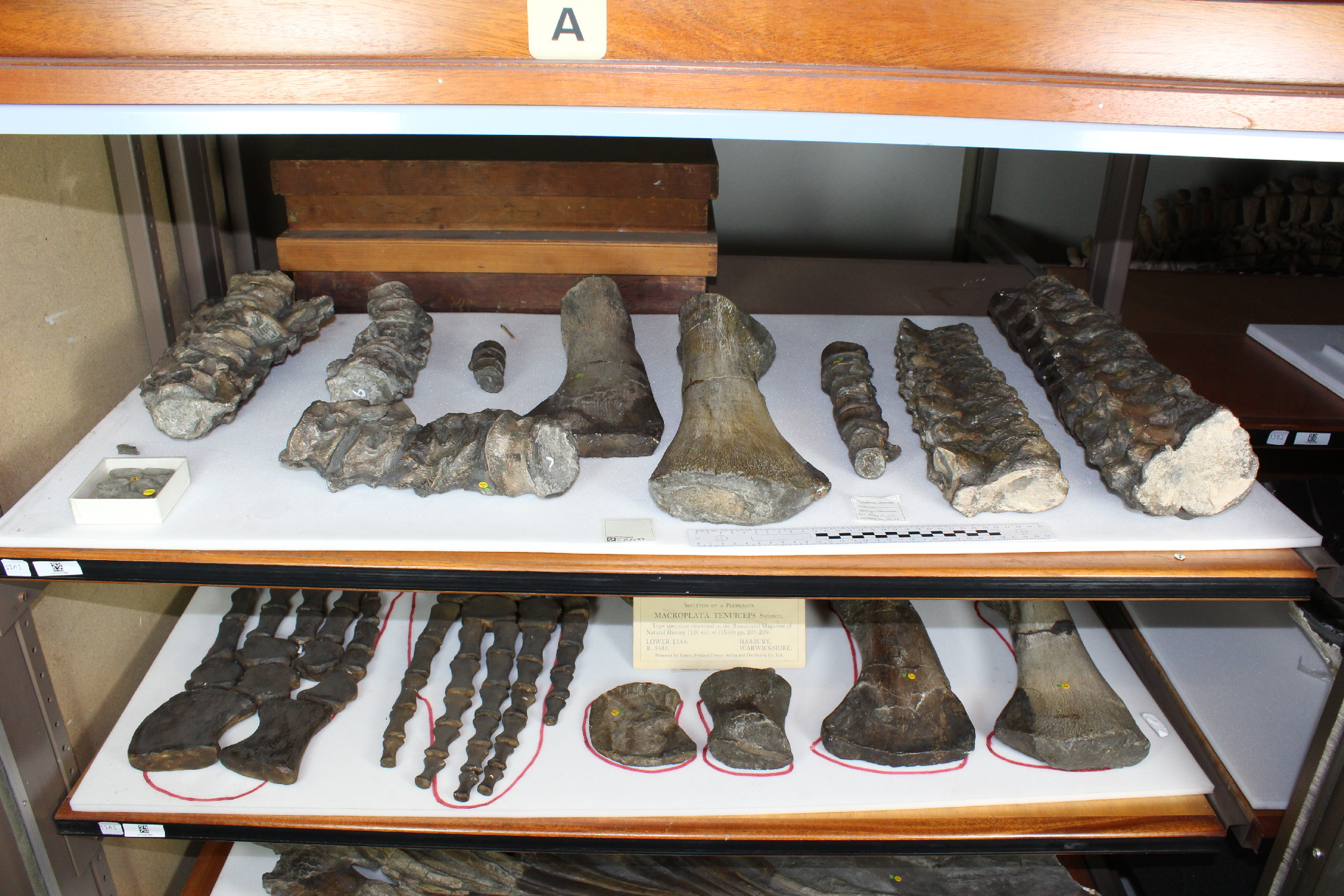 file downloaded from the NHM data portal